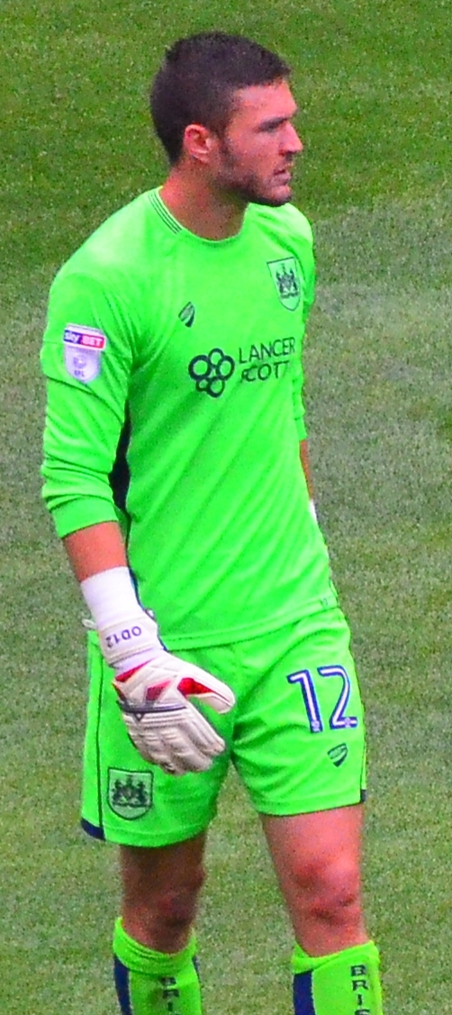 Richard O'Donnell playing for Bristol City against Aston Villa at Ashton Gate Stadium, Bristol on 27 August 2016